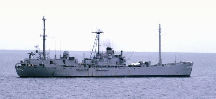 USS Jamestown (AGTR-3) under way during a VertRep replenishment with USS Niagara Falls (AFS-3) off AnThoi, Phu Quoc Island, Vietnam, date unknown.